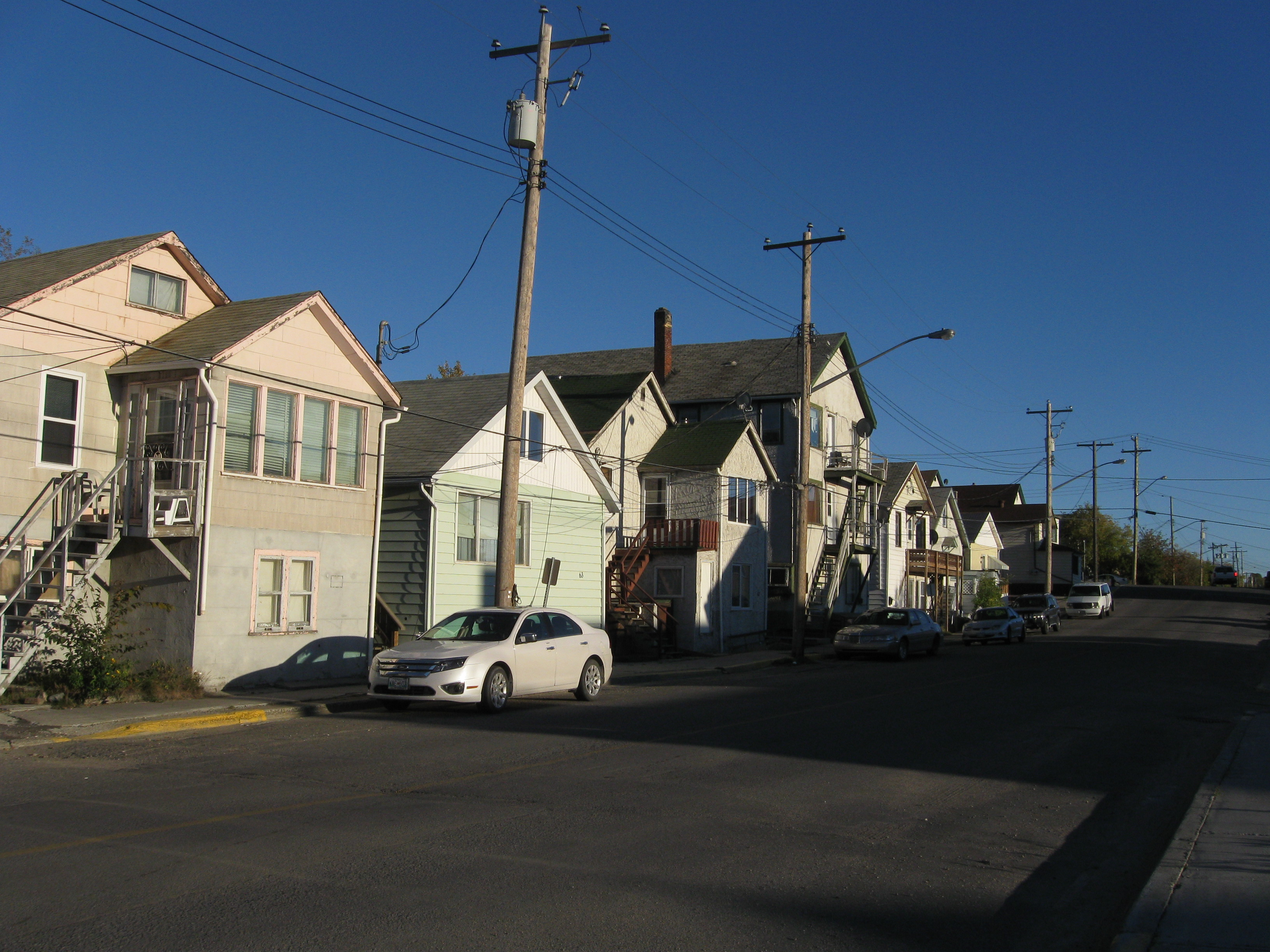 A typical street in Flin Flon - Hapnot Street